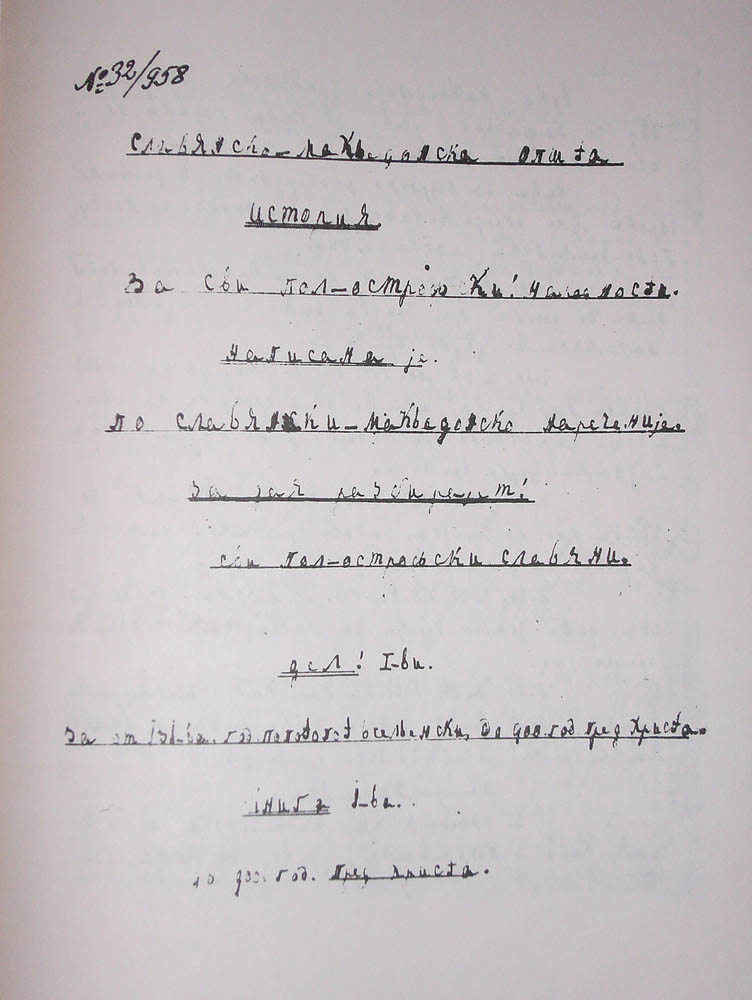 The cover page of the manuscript "Slavic Macedonian general history" written by Gjorgjija Pulevski in 1892.